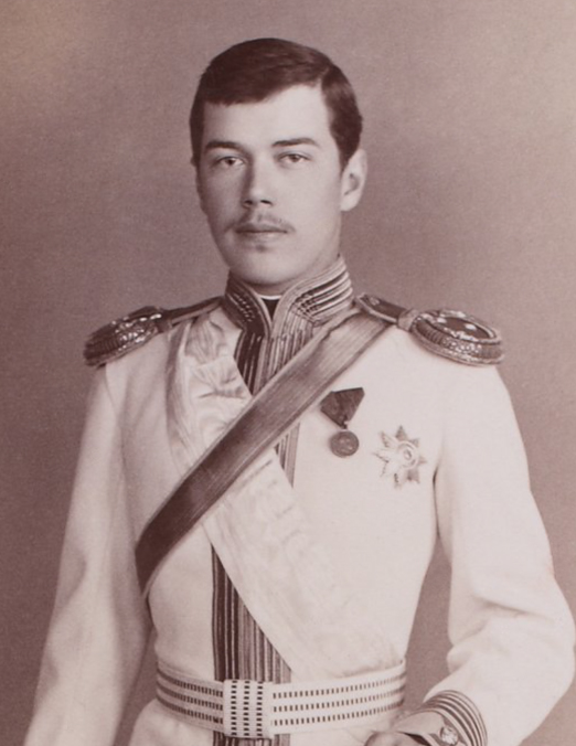 Tsarevich Nicholas Alexandrovich of Russia (later Tsar Nicholas II)